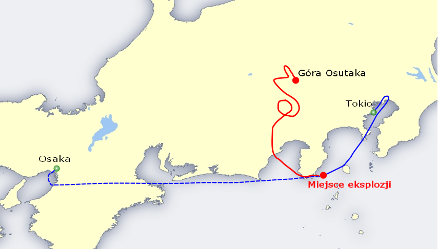 Route of Japan Airlines Flight 123 (Polish)